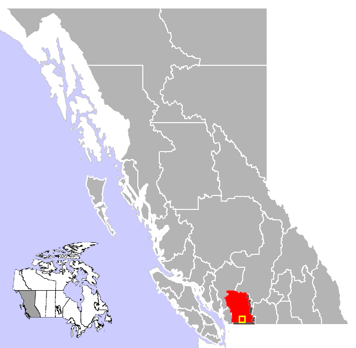 Location of Chilliwack, Fraser Valley District, BC